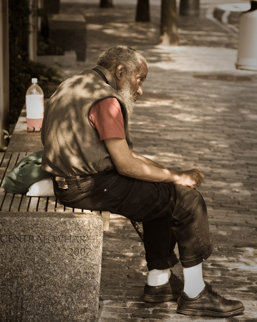 Old African American homeles Male in Central Wharf in Boston, MA